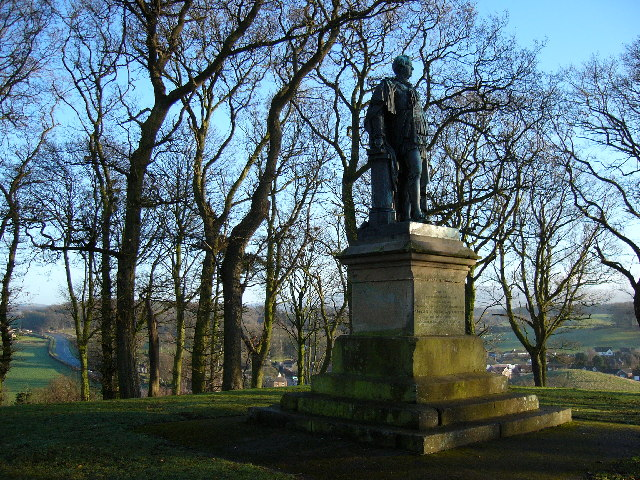 Howard Monument the Motte, Brampton. George William Frederick Howard Monument on top of the Motte (hill) in Brampton.